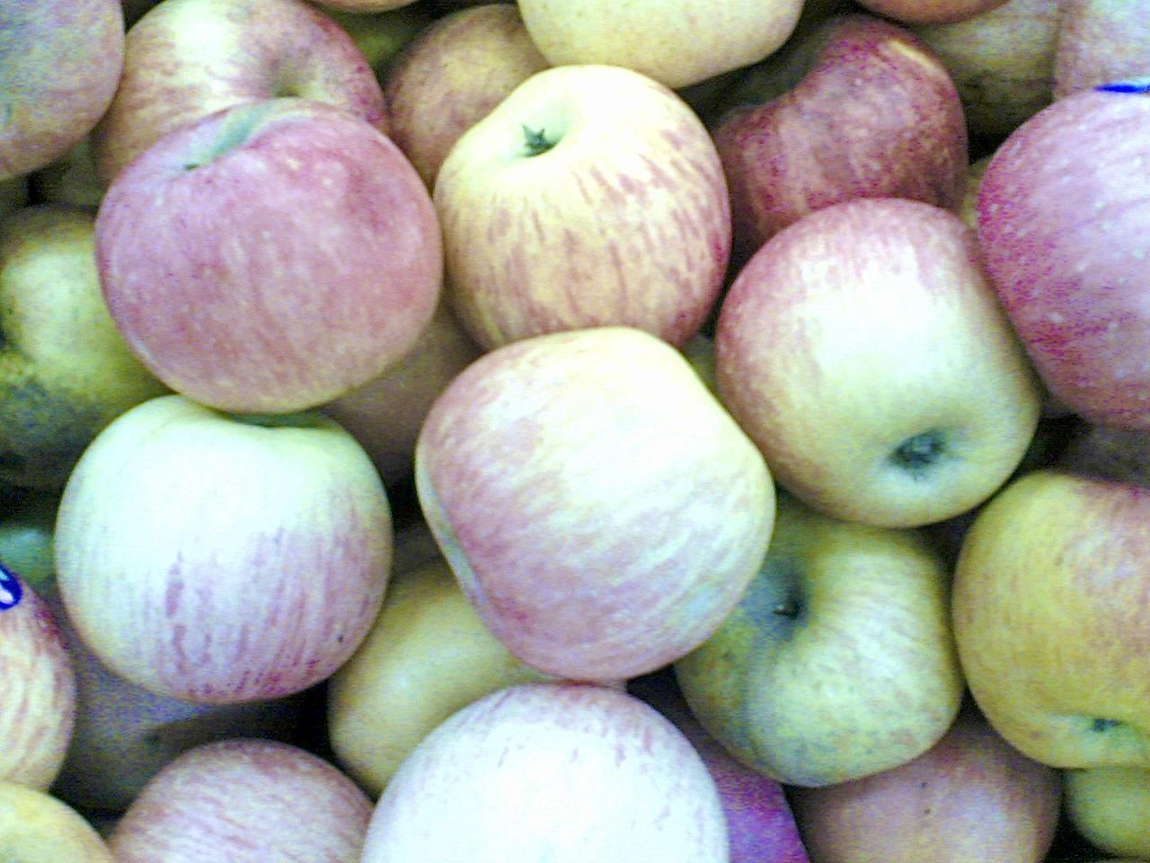 Fuji appleആപ്പിൾ ഫുജി